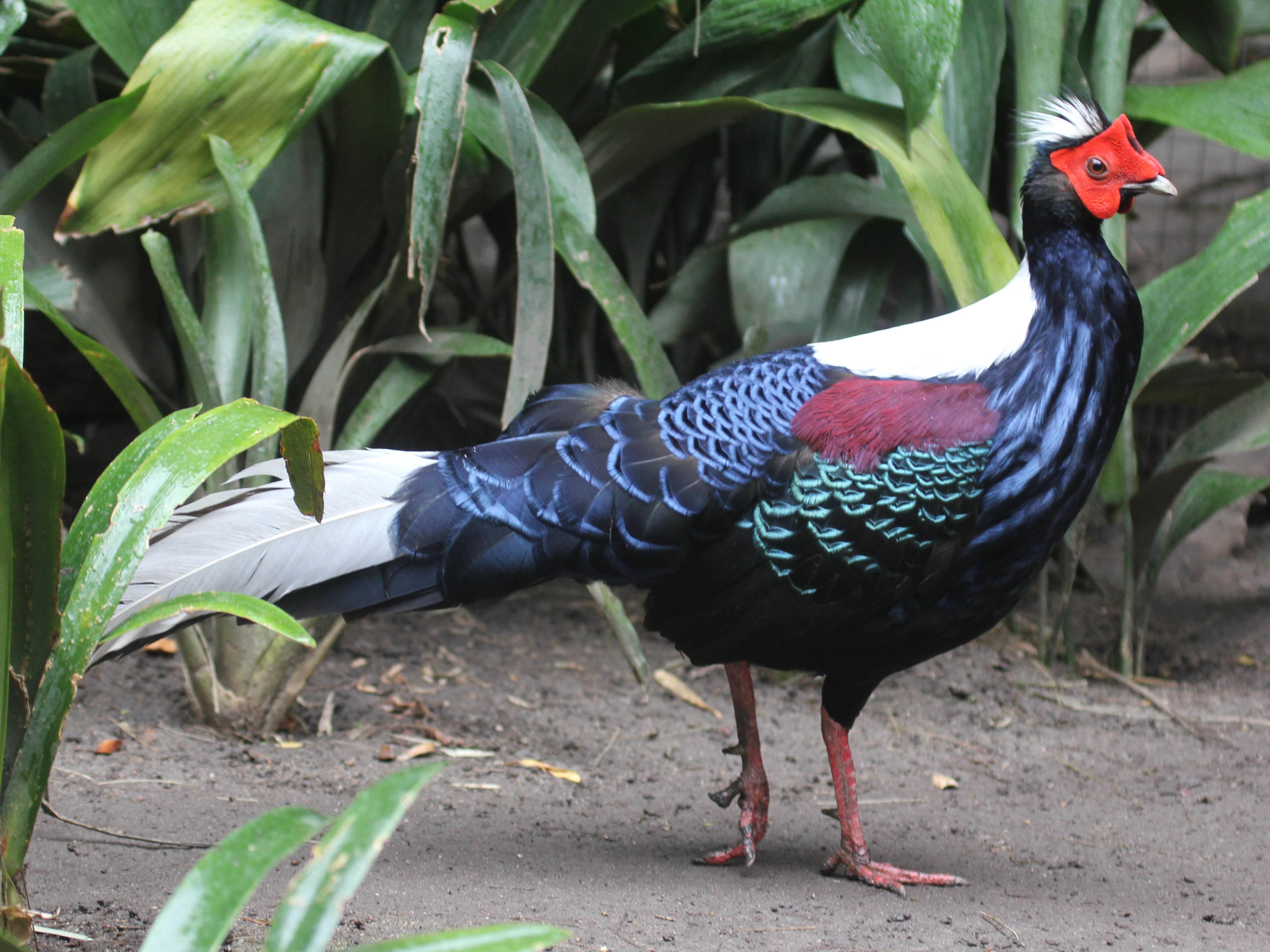 Swinhoe's Pheasant (Lophura swinhoii) at World of Birds Wildlife Sanctuary (an aviary) in Cape Town, South Africa Bân-lâm-gú: Tī Lâm-hui Khai-phó͘-tun(Cape Town) ê sè-kài chiáu-lūi iá-seng tōng-bu̍t pó-hō͘-khu(chhī-ióng-tiûⁿ) ê hoâ-ke ke-kang. 佇南非開普敦(Cape Town)的世界鳥類野生動物保護區（飼養場）的華雞雞公。